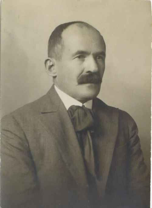 Alfred Šerko (1879-1938).